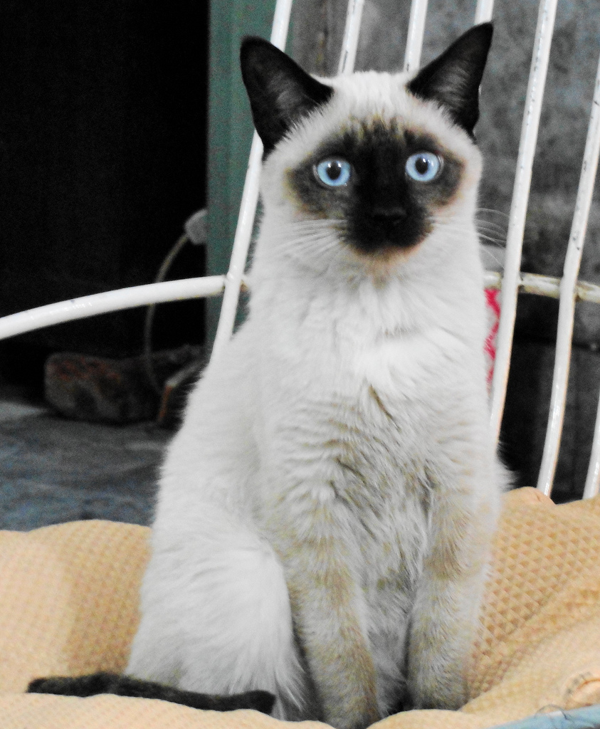 Siamese Cat Female